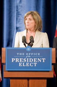 Carol Browner speaking at a press conference